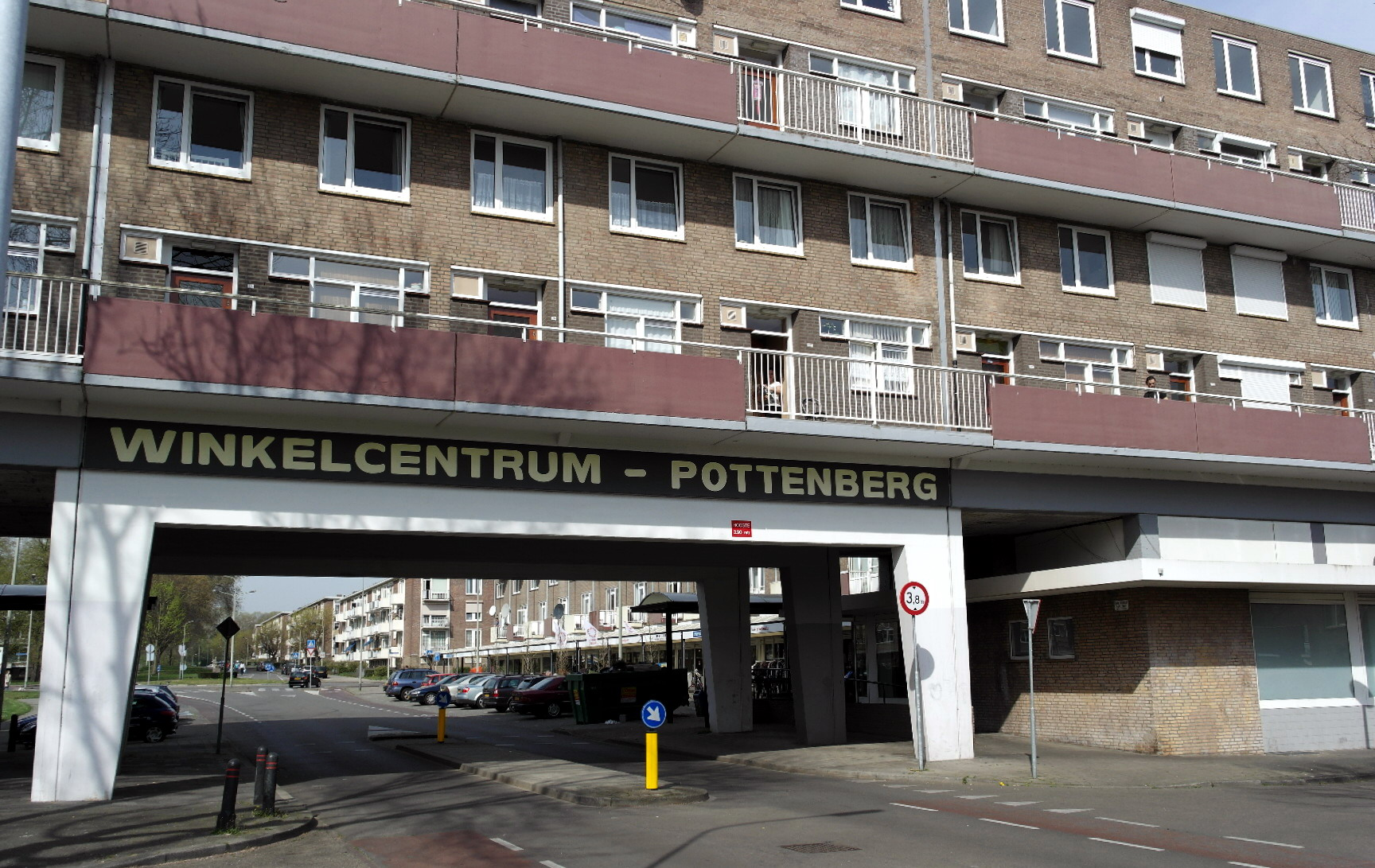 Maastricht, the Netherlands. View of typical early 1960s apartment block above shops at Terra Cottastraat in the Maastricht-West neighbourhood of Pottenberg.